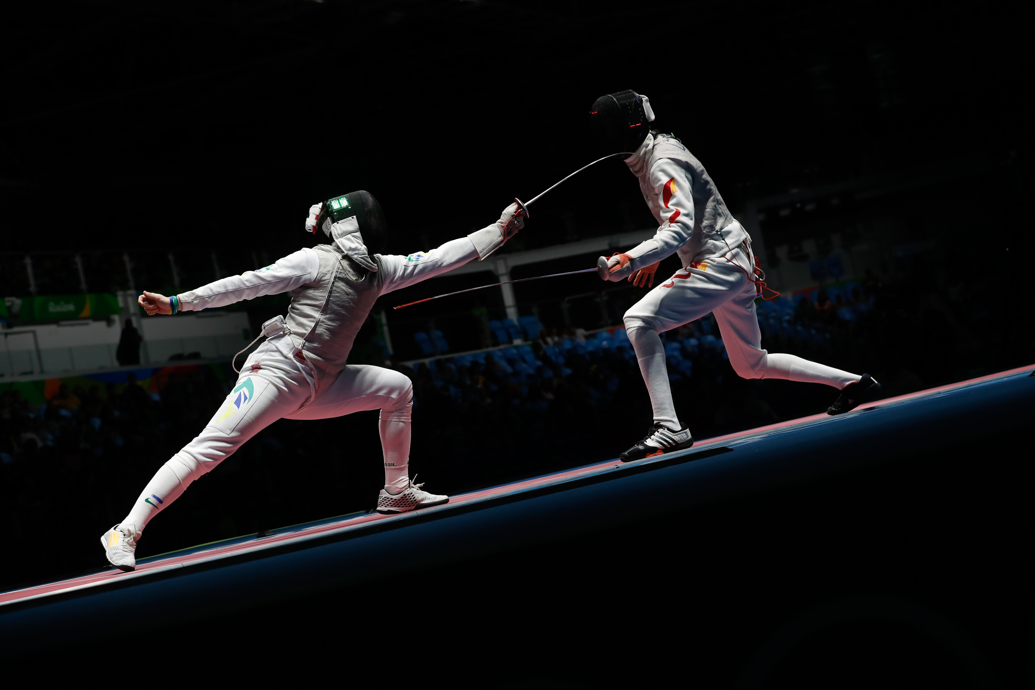 Rio de Janeiro - Equipe brasileira de esgrima perde no florete pata italianos e chineses e termina em 7º lugar nos Jogos Olímpicos Rio 2016. (Fernando Frazão/Agência Brasil)